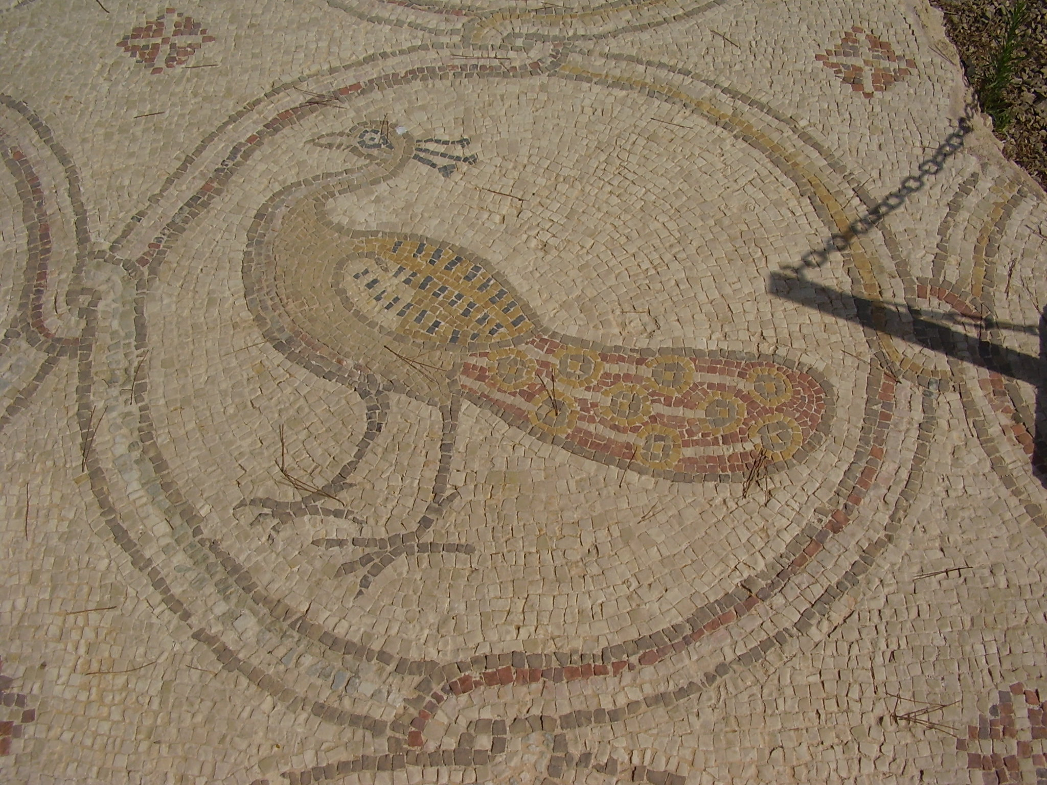 Mosaic of a peacock (byzantine period), Caesarea, Israel.